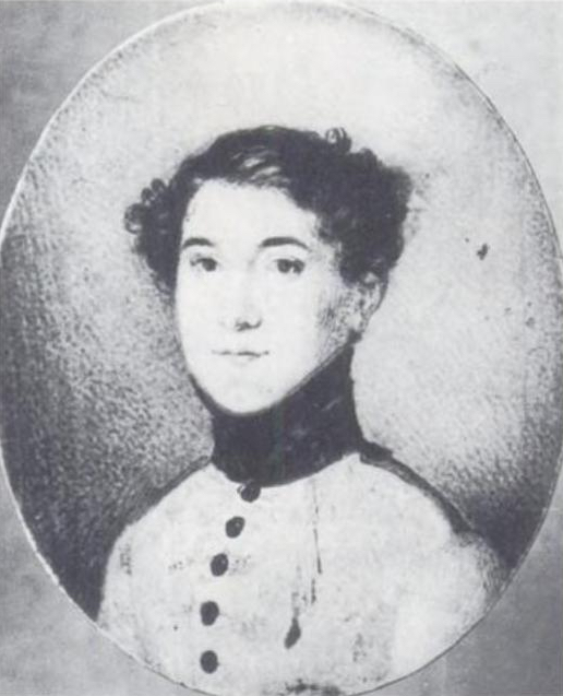 Miniature portrait of Karl van Beethoven / Nephew of Ludwig van Beethoven / son of Kaspar Karl Anton van Beethoven / son of Johanna van Beethoven